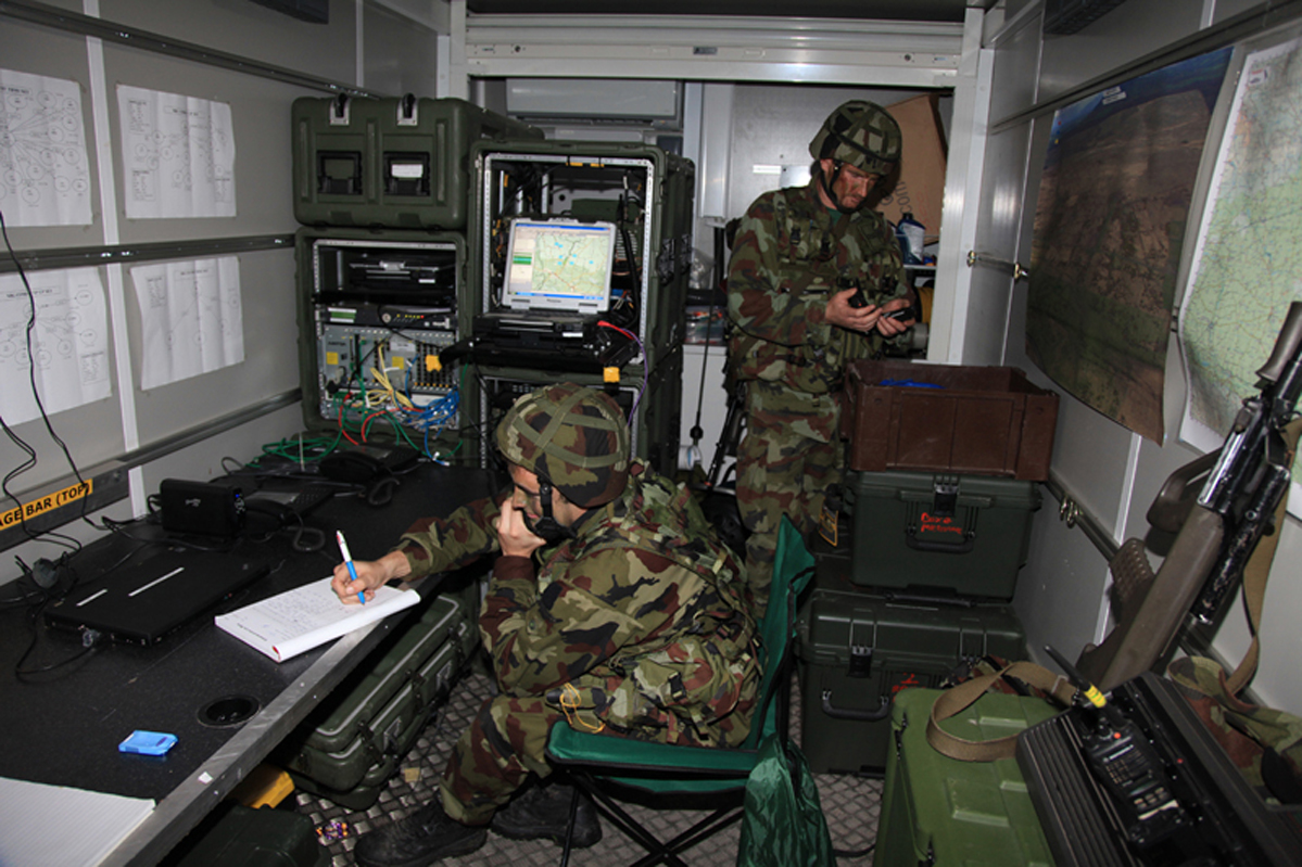 Nordic Battle Group ISTAR Training recently took place in Kilworth, including a visit from the Nordic Battle Group Force Cmdr and ISTAR Cmdr from Sweden